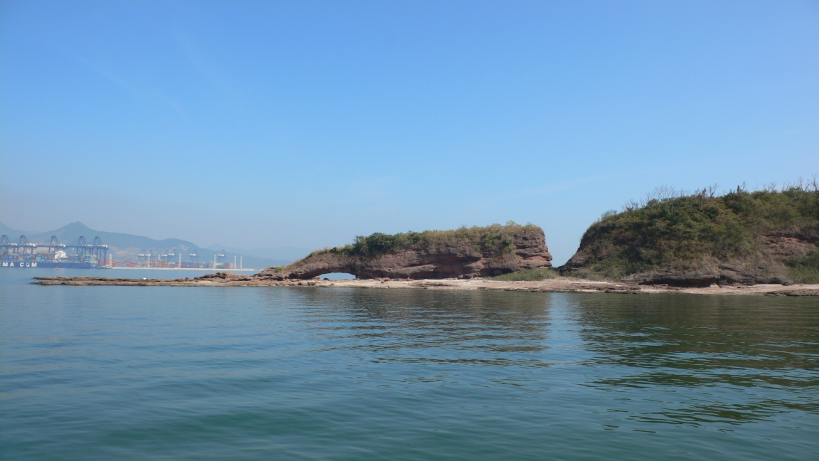 Because of this scenary, this outlying island in Northern Hong Kong is called Ap Chau, which means Duck Island